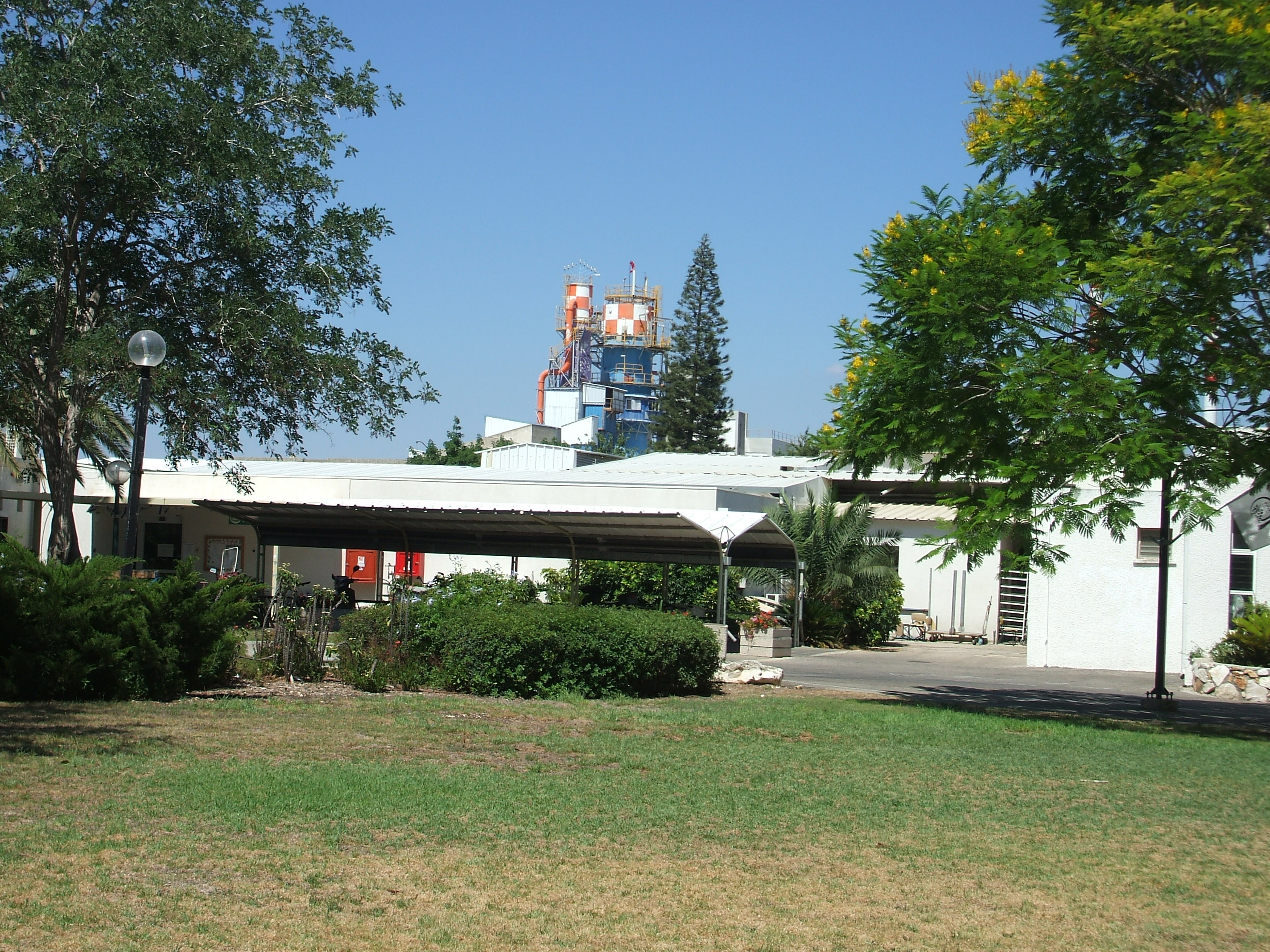 Kibbutz Dalia, Meggido council, Israel